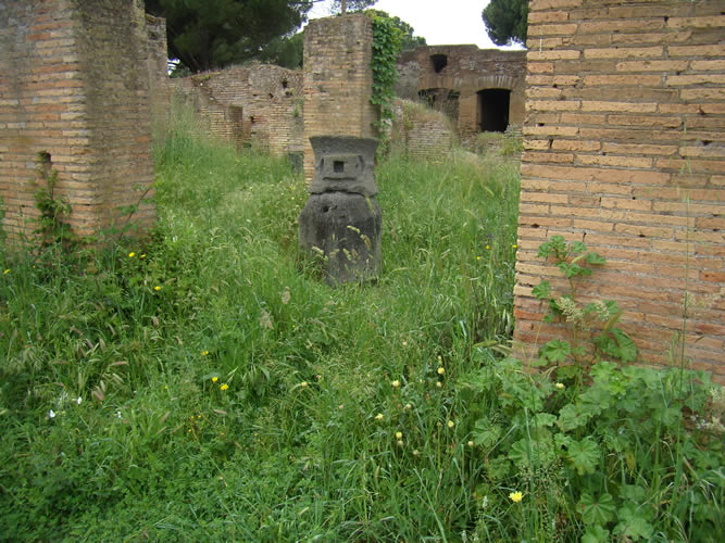 Ostia, Roman mill, bakery (I,XIII,4)